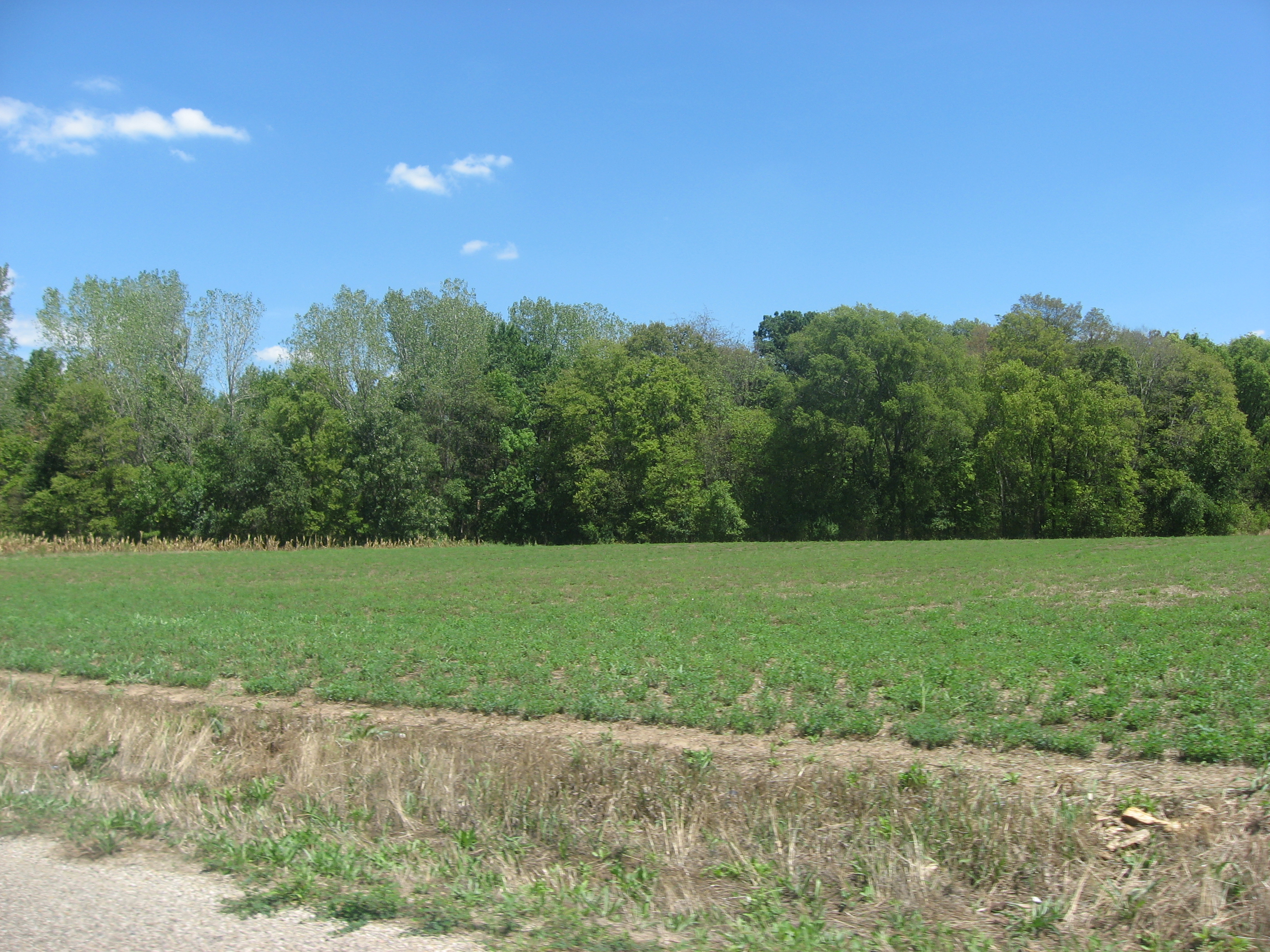 Overview of a field at the Stoner Site, located along the eastern side of 1550th Street between 1300th and 1235th Avenues in Lamotte Township, Crawford County, Illinois, United States. Stoner was the location of a village of the Allison-LaMotte culture of Native Americans during the Woodland period; today, it is an archaeological site and listed on the National Register of Historic Places.